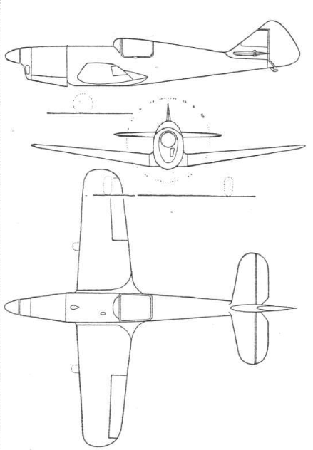 3-View of the Miles Hobby